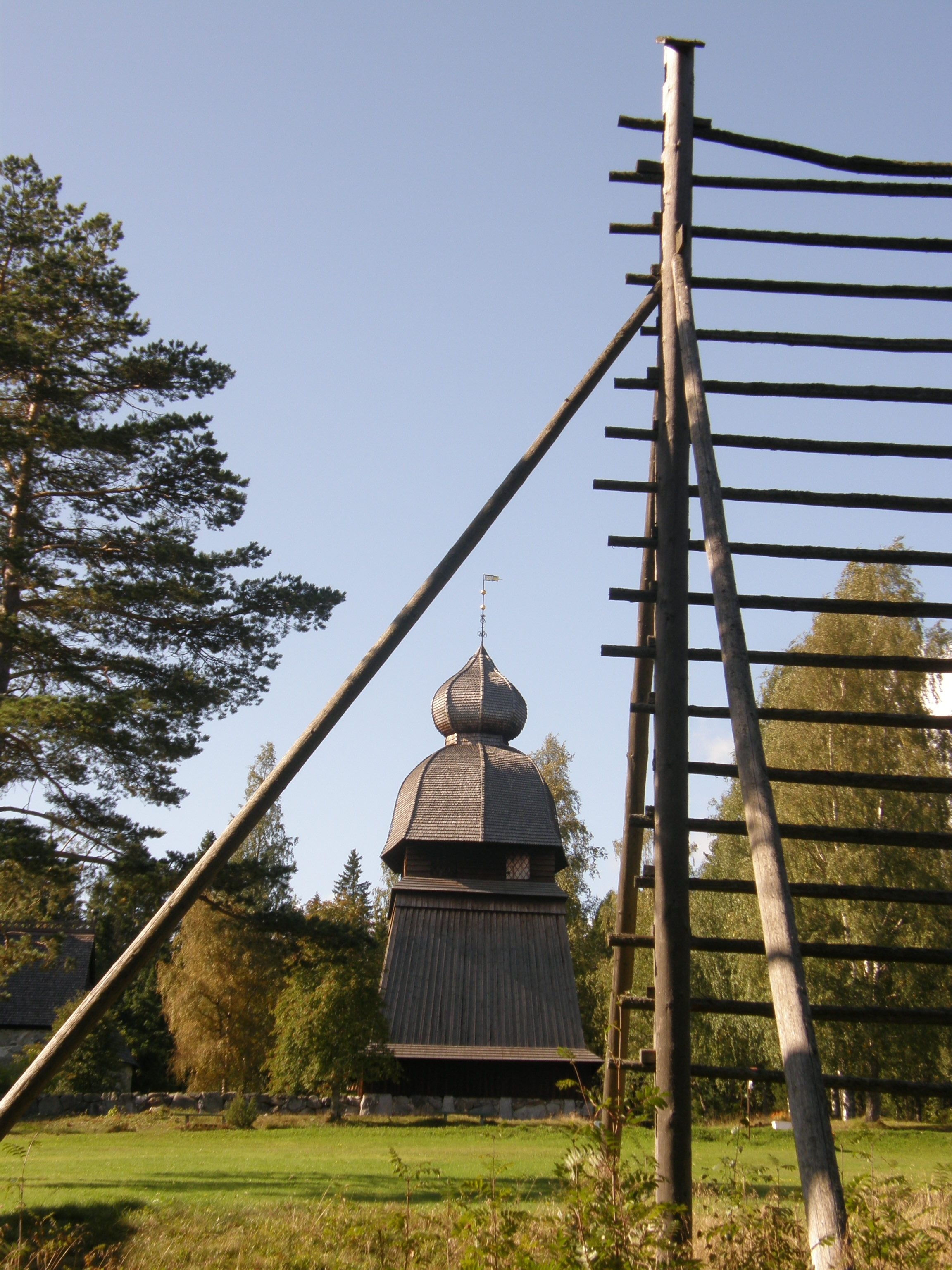 Bell frame at outdoor museum Murberget